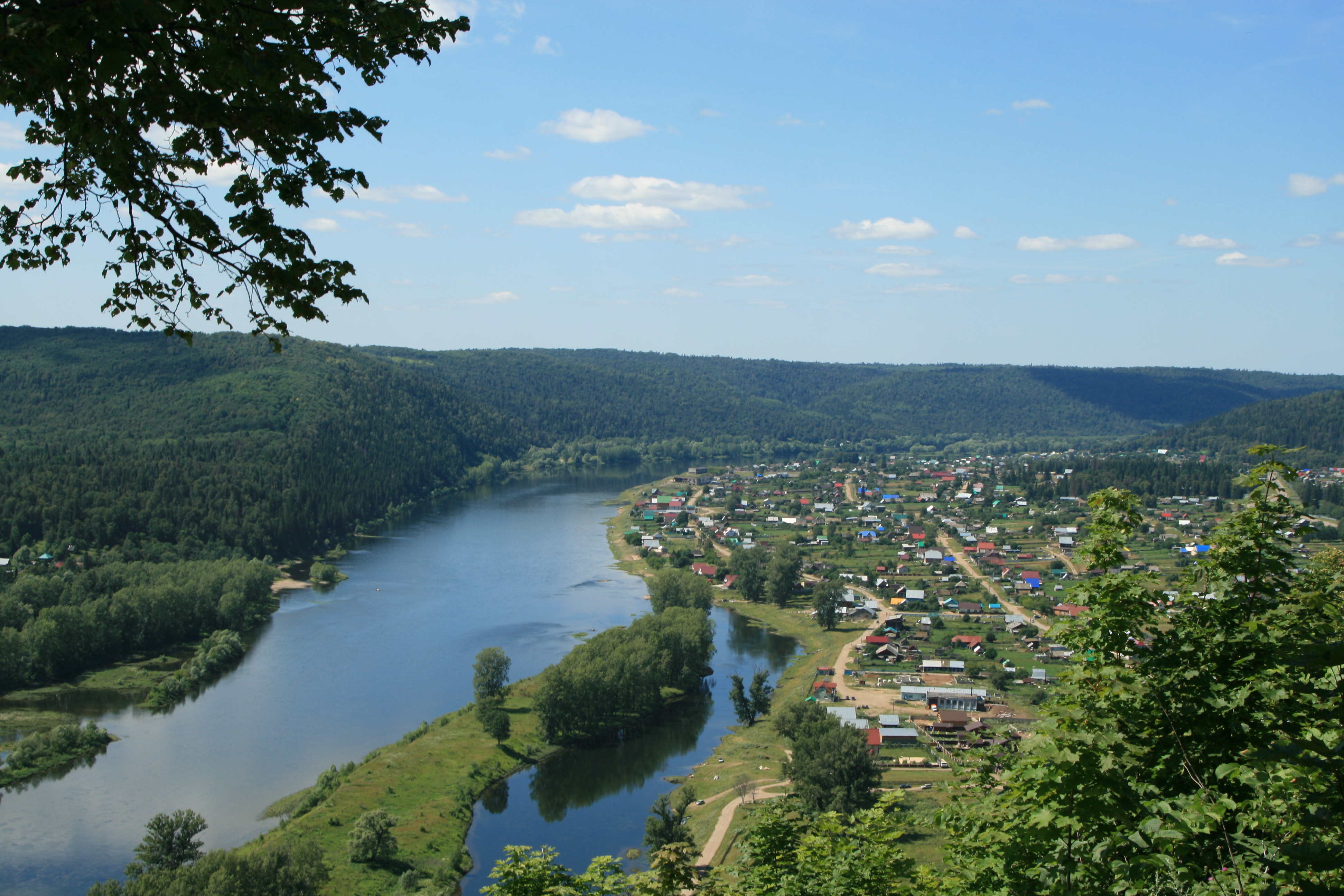 Ufa river in the village Krasnyi Klyuch (Red Spring) — view from Lysaya («Bald») mountain.